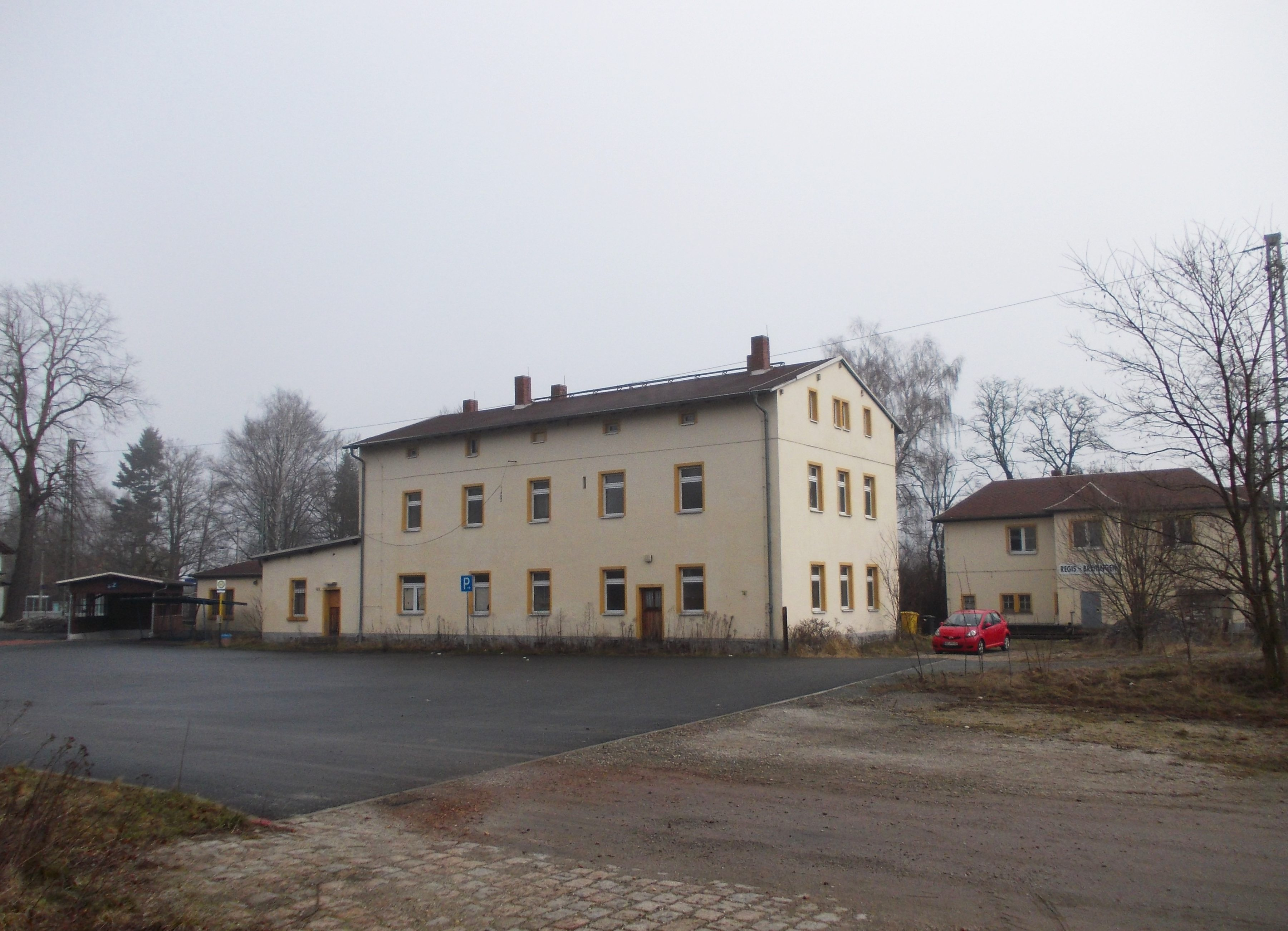 Regis-Breitingen train station (Leipzig district, Saxony)